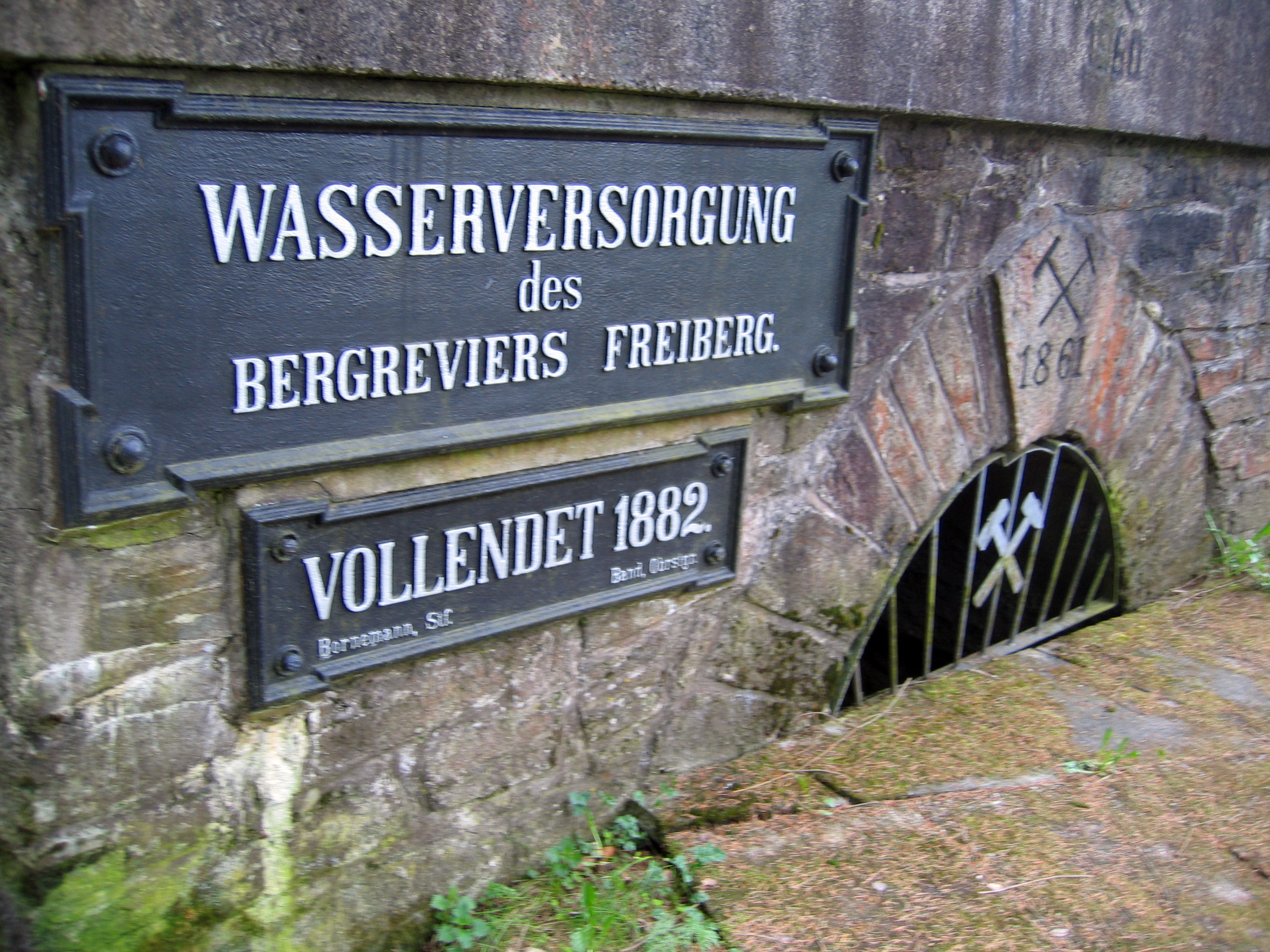 Cämmerswalde - Mundloch des Kunstgrabens im Niederdorf